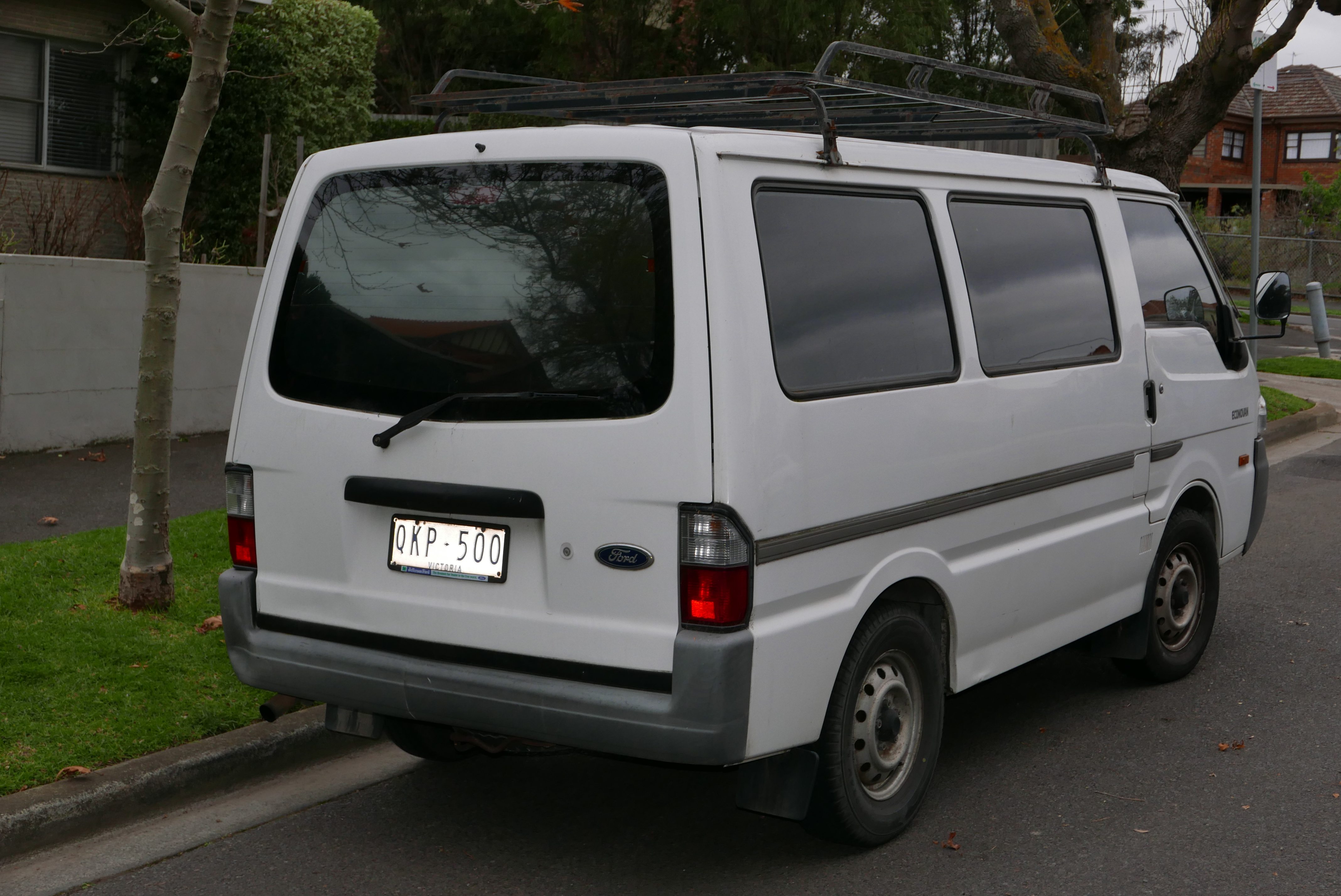 2000 Ford Econovan (JH) SWB van. Photographed in Brighton, Victoria, Australia. Vehicle registration enquiry resultsJurisdictionVictoriaRegistrationQKP500Chassis codeJC0AAASGMEYD12537Engine codeFE411479Compliance date2000-08Year of manufacture2000